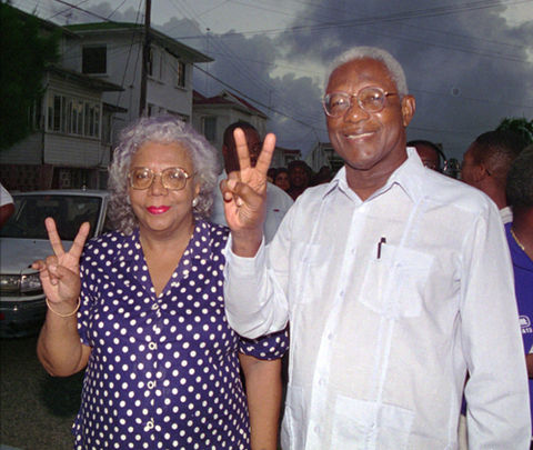 Desmond Hoyte and Wife